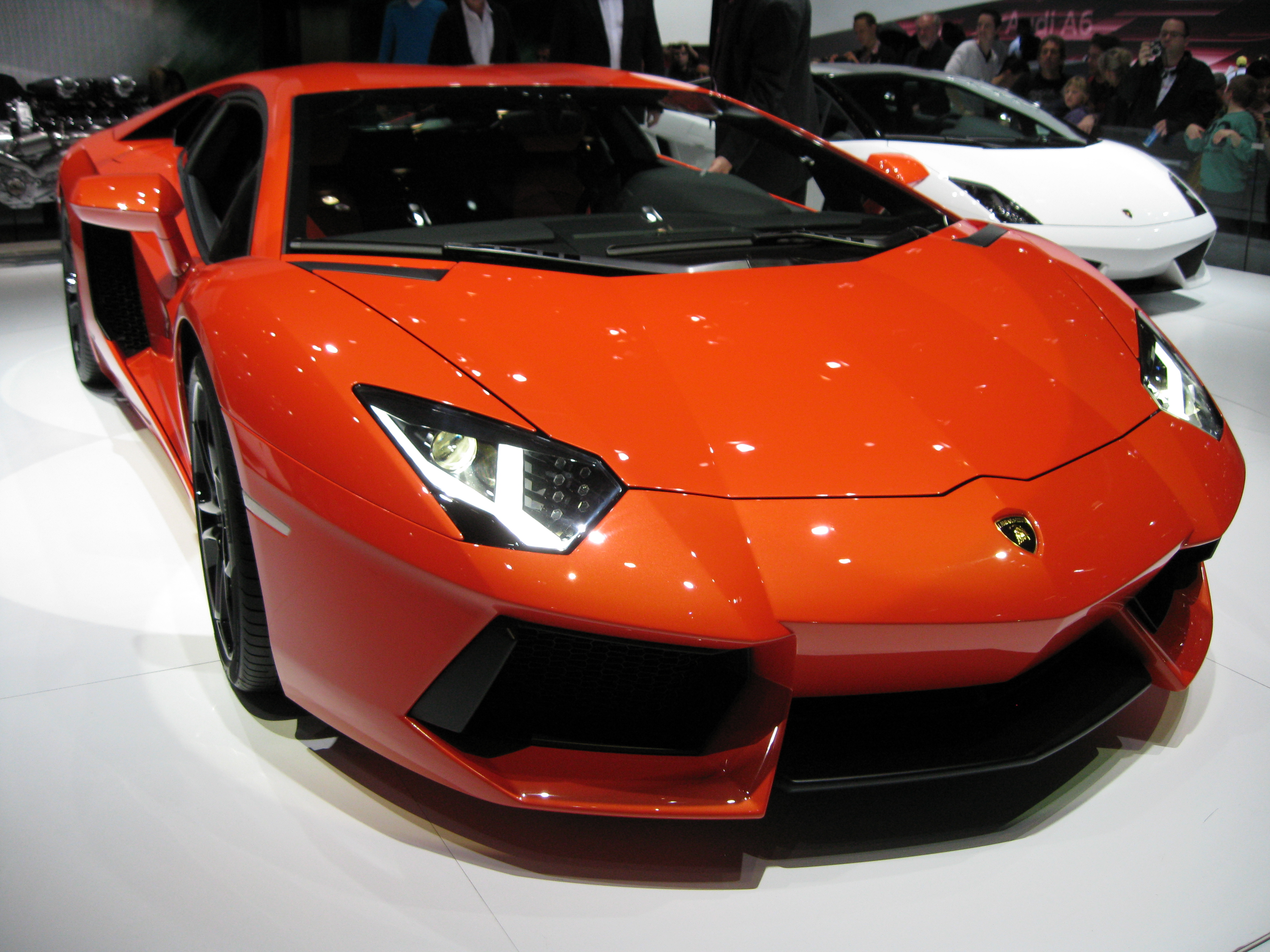 Geneva Motor Show 2011